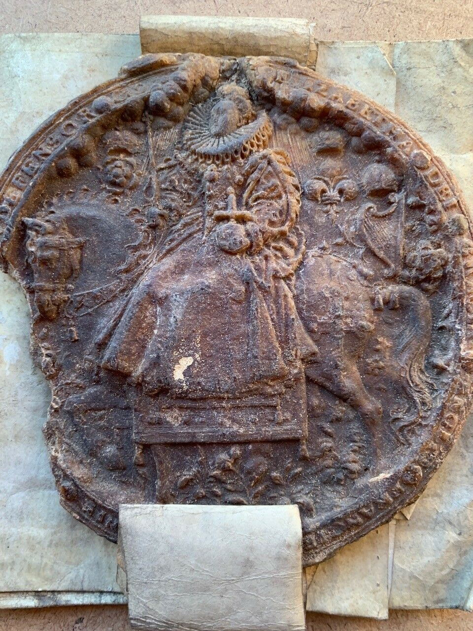 Second Great Seal of Elizabeth I This seal shows an image of Elizabeth I on horseback riding across a field of flowering plants. The inscription around the edge reads: 'Elizabetha dei gracia Anglie Francie et Hibernie Regina Fidei Defensor' ('Elizabeth by the Grace of God Queen of England, France and Ireland, Defender of the Faith'). The seal was engraved by the famous miniaturist Nicholas Hilliard and was used during the second half of Elizabeth's reign (1586-1603)